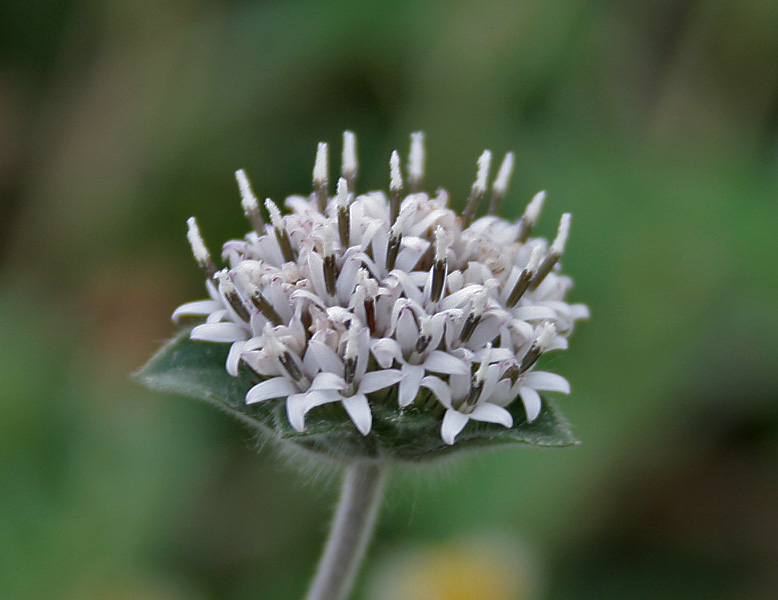 Silkleaf Lagascea mollis in Hyderabad , India.